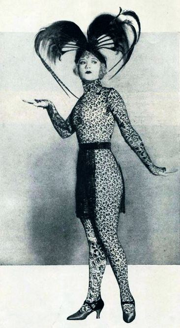 Still with Betty Compson for the American melodrama film The Green Temptation (1922), on page 17 of the April 1922 Film Fun.